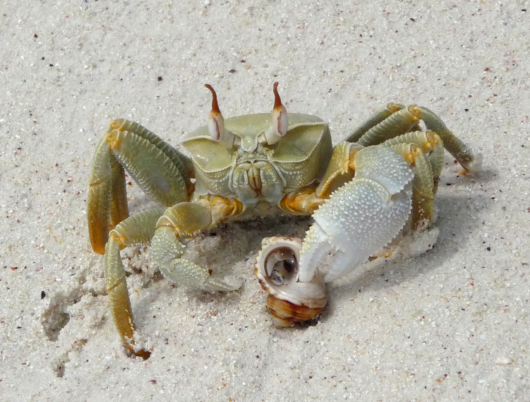 Diego Garcia (Chagos Archipelago) British Indian Ocean Territory